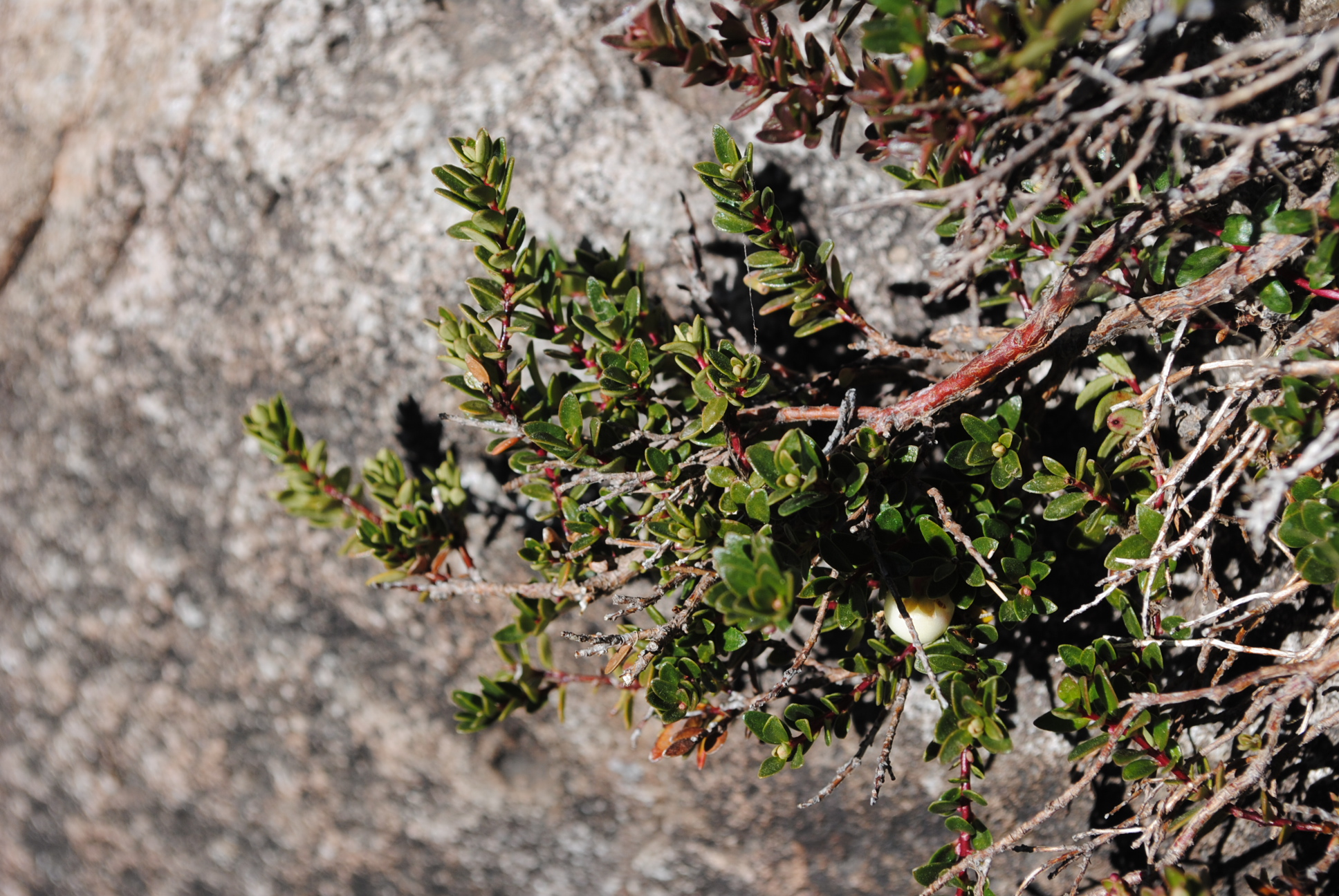 Gaultheria pumila